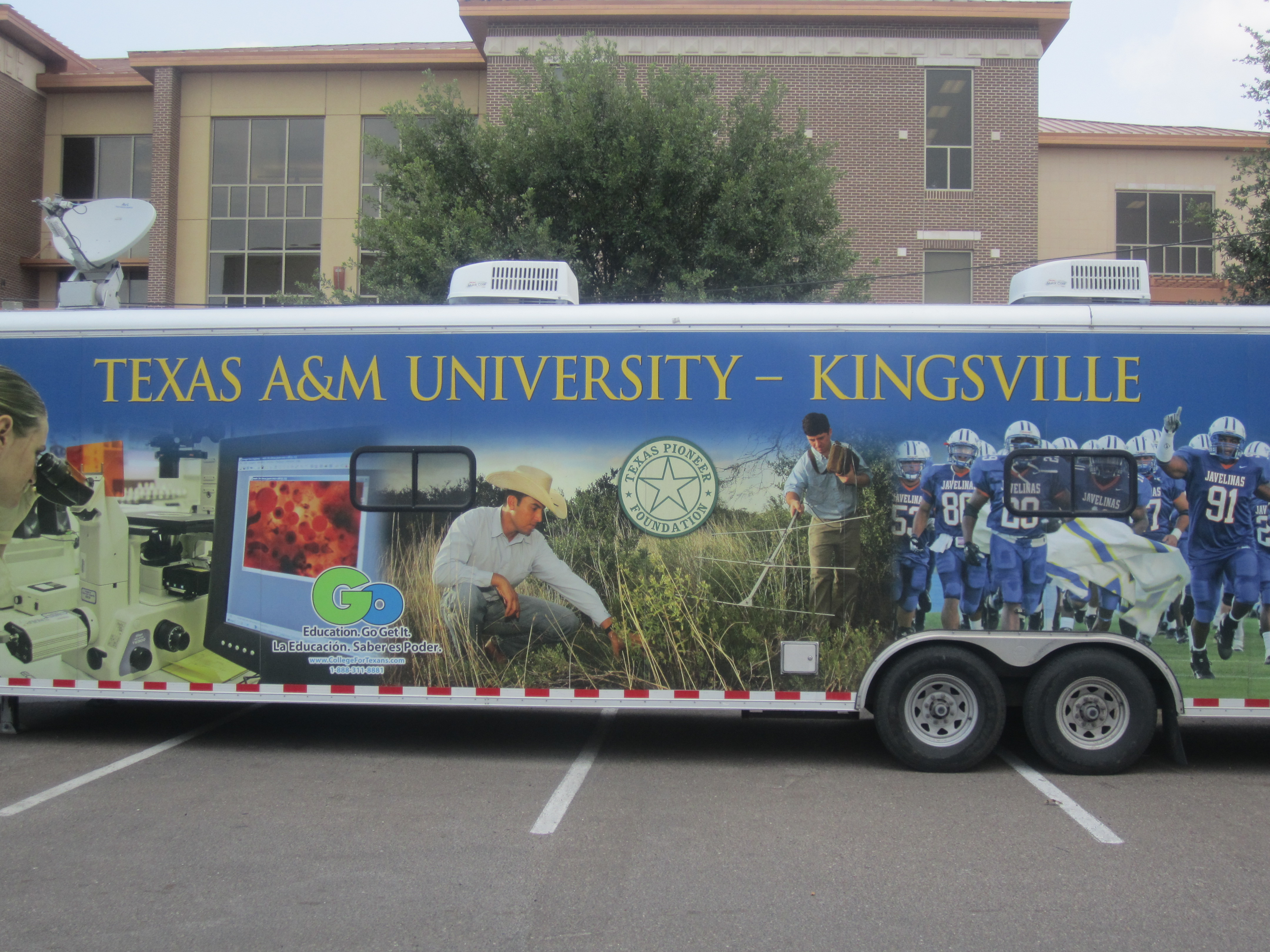 I took photo with Canon camera in Laredo, TX.